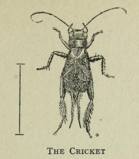 The Cricket by Winifred M. A. Brooke from page 69 of the book "Insect life, its why and wherefore".